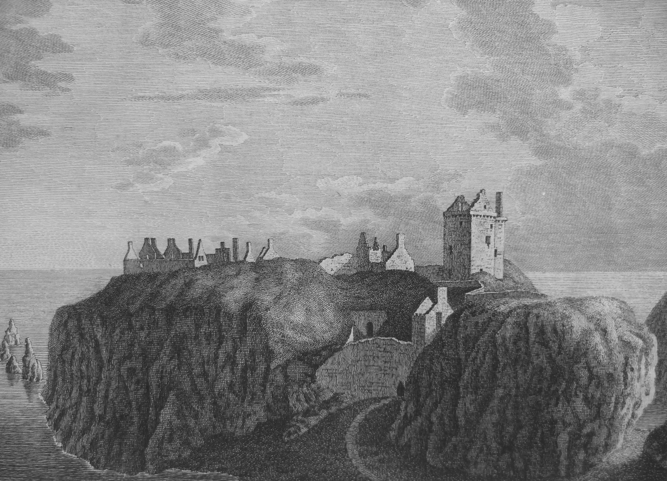 Ruins of Dunnottar Castle (18thC)